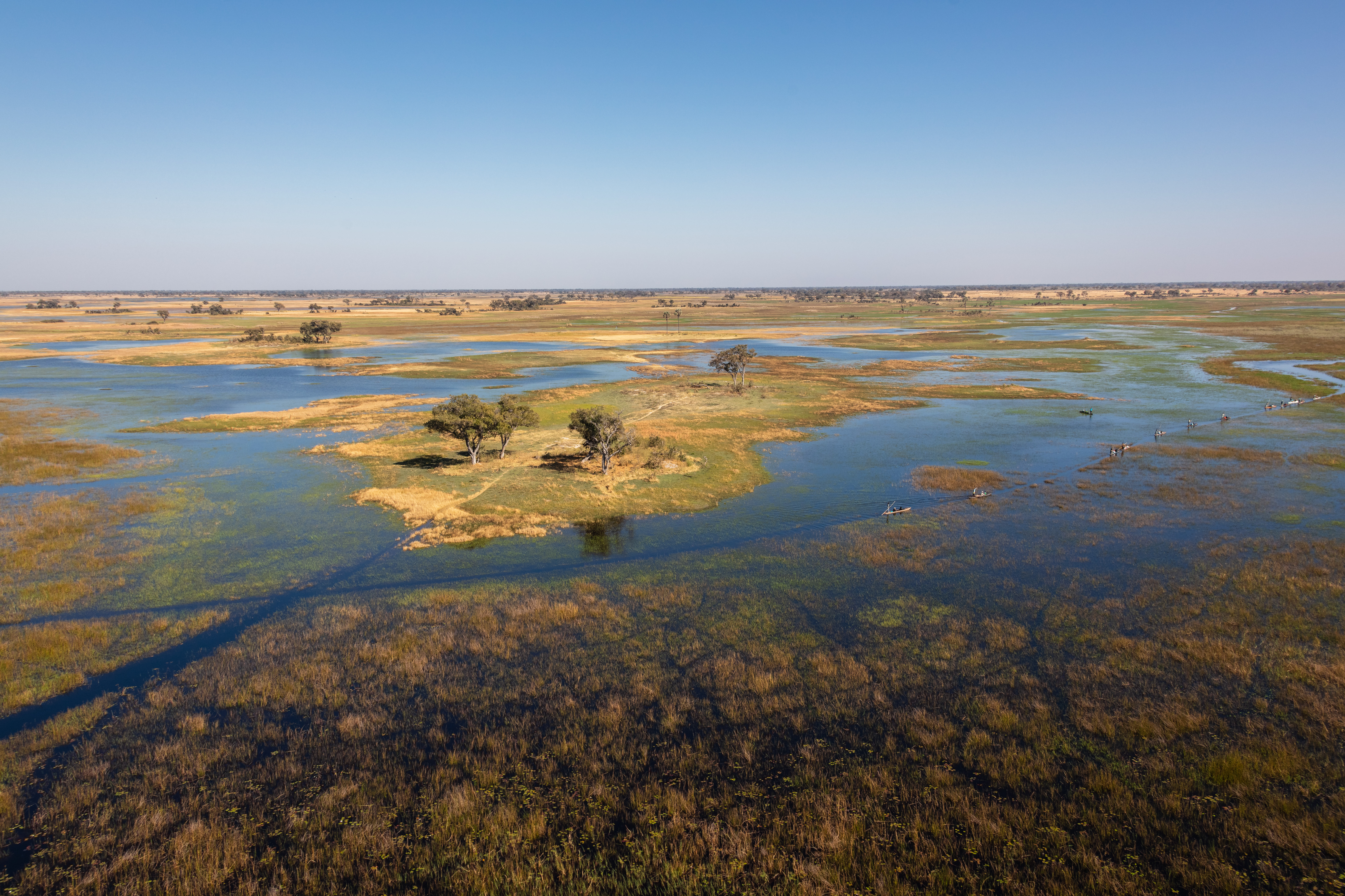 Aerial view of Okavango Delta, Botswana, with a dozen mokoros